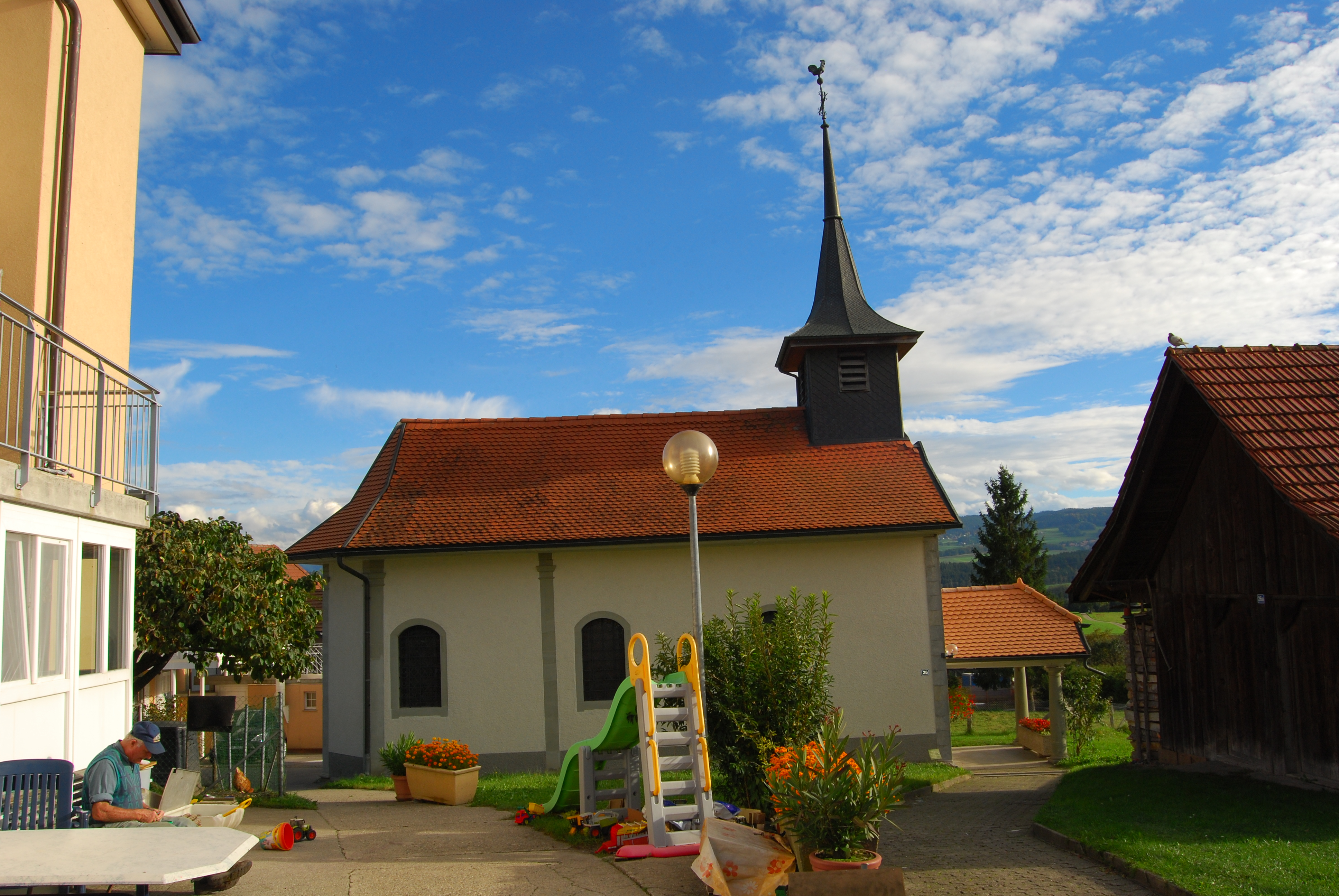 Chapel of Chénens, canton of Fribourg, Switzerland